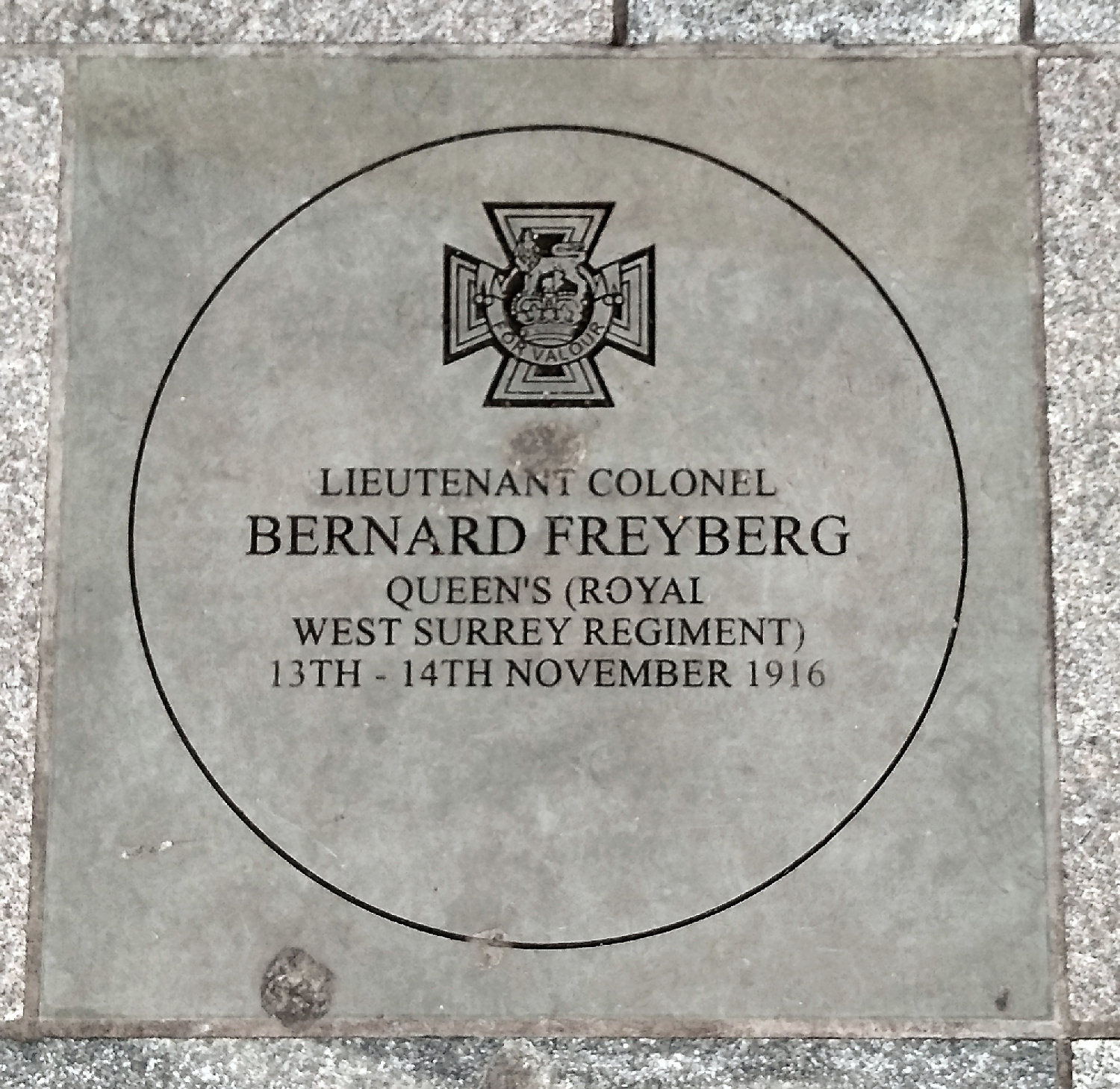 Lieutenant Colonel Bernard Freyberg commemorative paving stone outside Richmond Station